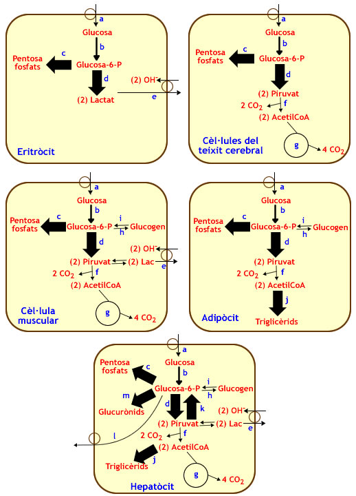 Glucose metabolism in different tissues.